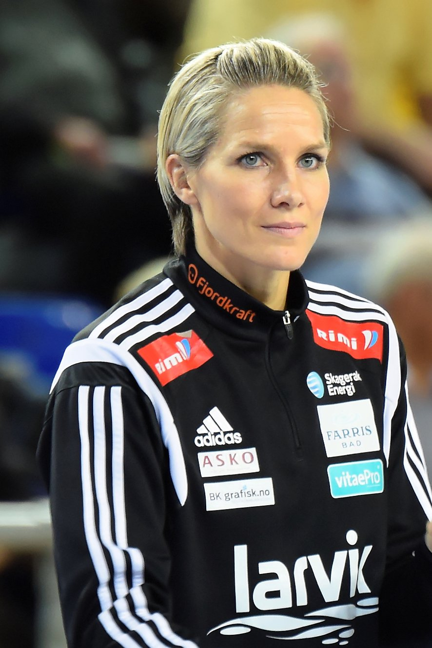 Gro Hammerseng-Edin - EHF Champion's League, Metz Handball / Larvik HK - 15 november 2014.